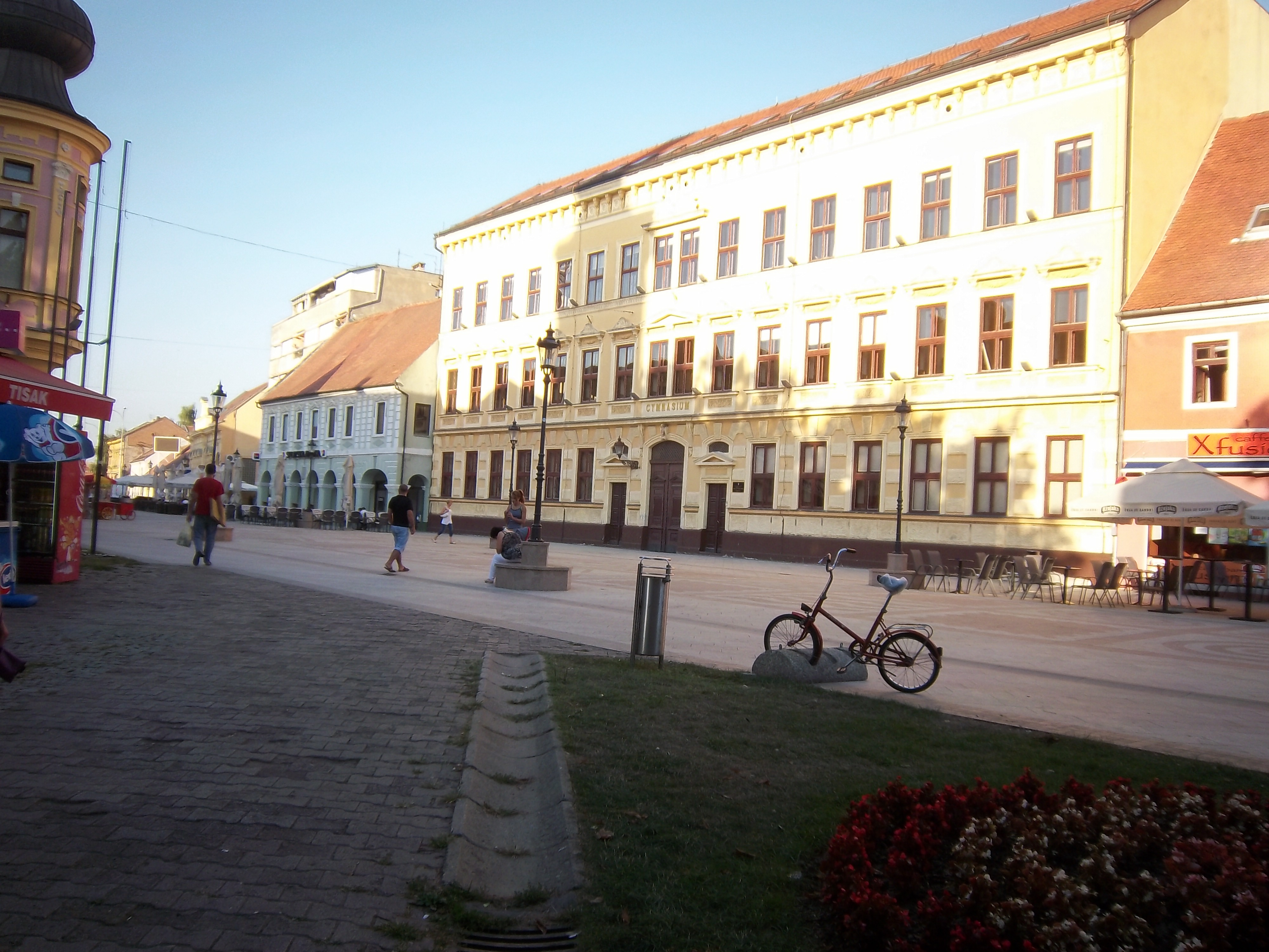 Gymnasium Vinkovci